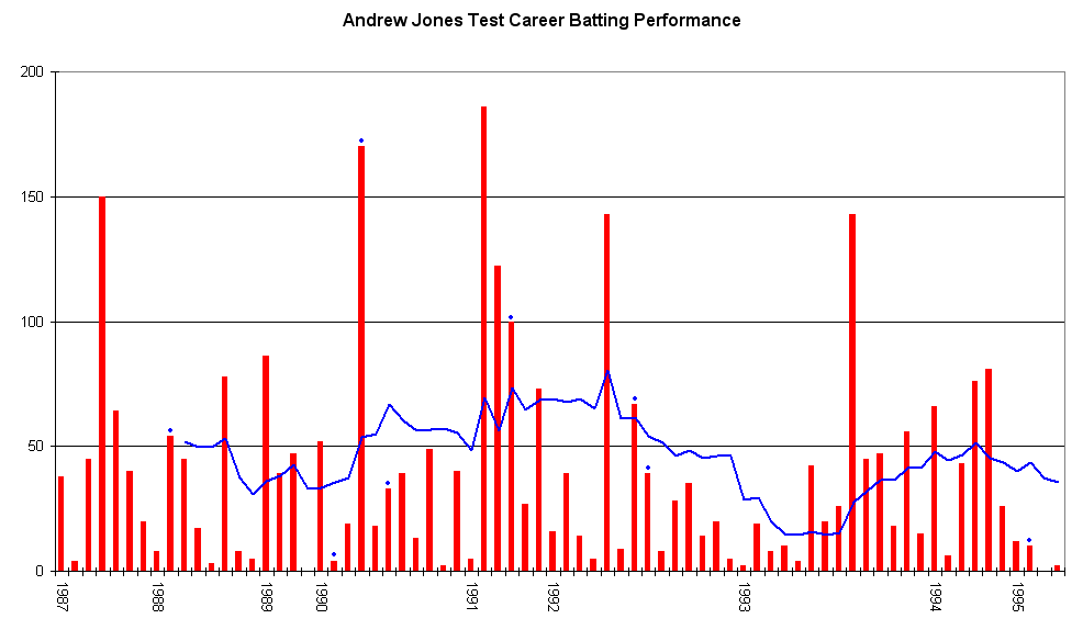 This graph details the Test Match performance of Andrew Jones. It was created by Raven4x4x. The red bars indicate the player's test match innings, while the blue line shows the average of the ten most recent innings at that point. Note that this average cannot be calculated for the first nine innings. The blue dots indicate innings in which Jones finished not-out. This graph was generated with Microsoft Excel 2002, using data from Cricinfo [1] and Howstat [2].